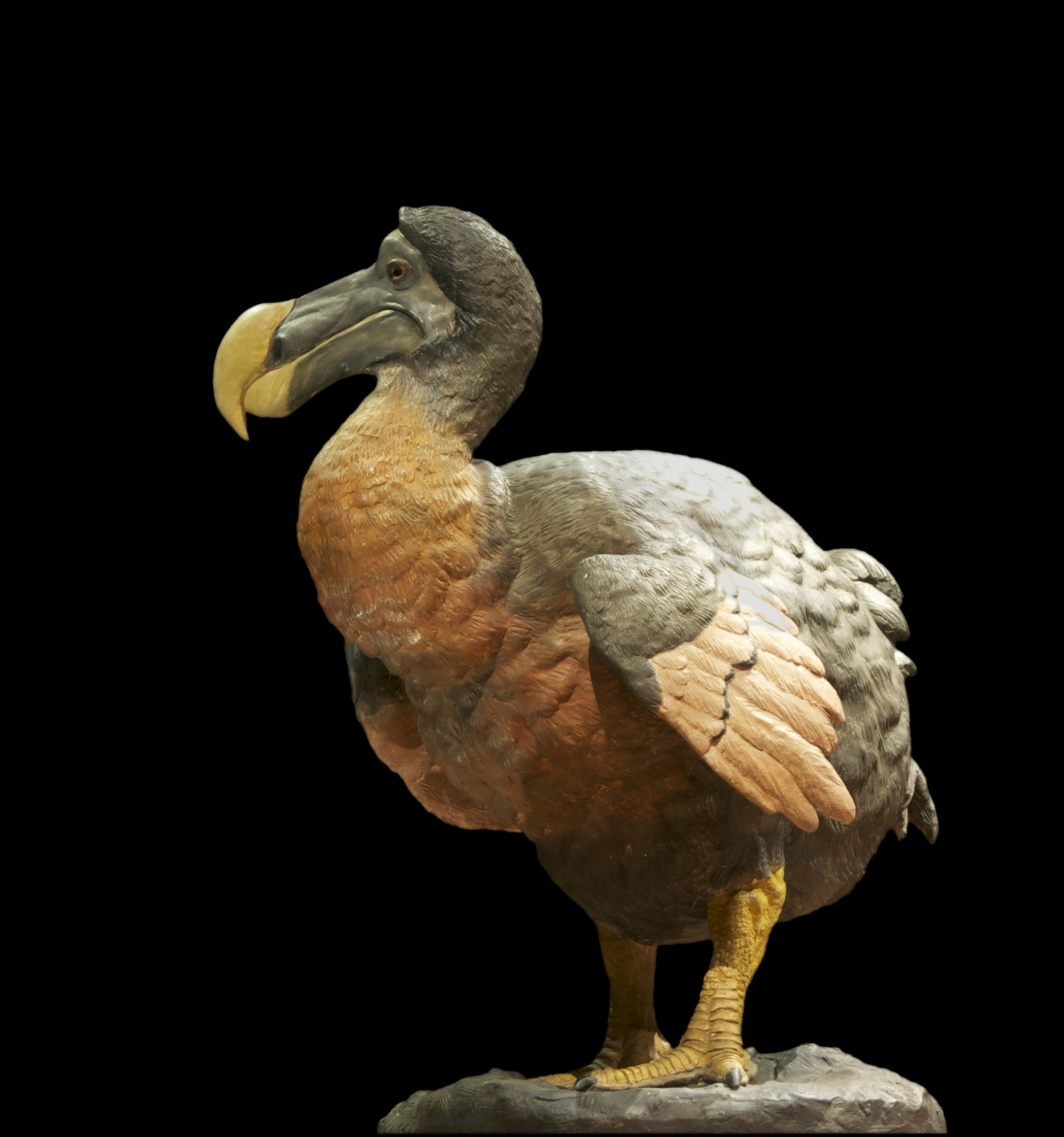 Raphus cucullatus, Extinct. Plaster and wax model, made by taxidermists of the Museum National d'Histoire Naturelle in Paris, middle 19th century.